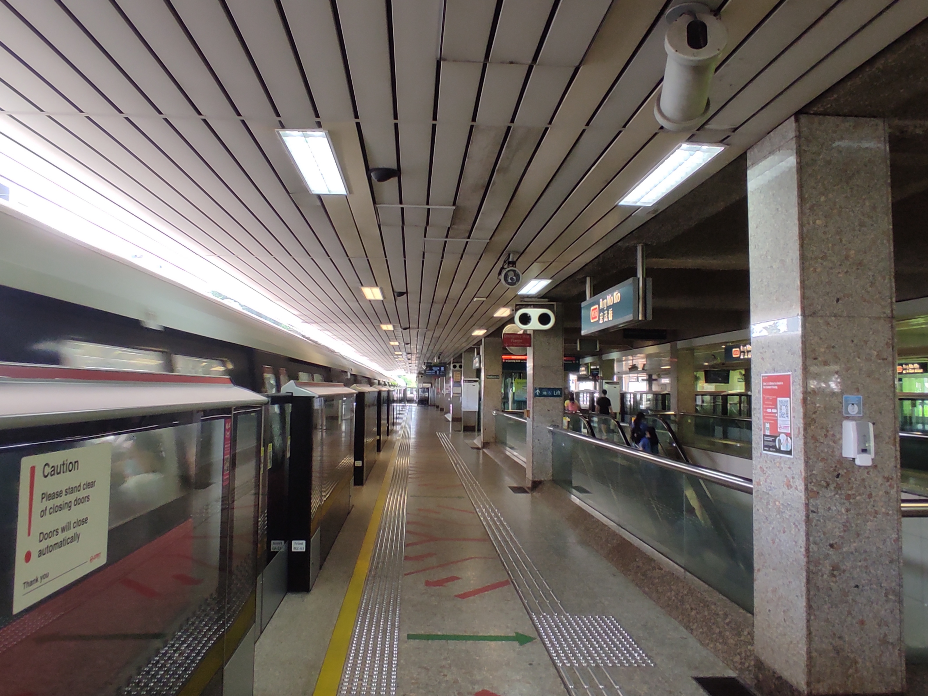 Platform A of Ang Mo Kio